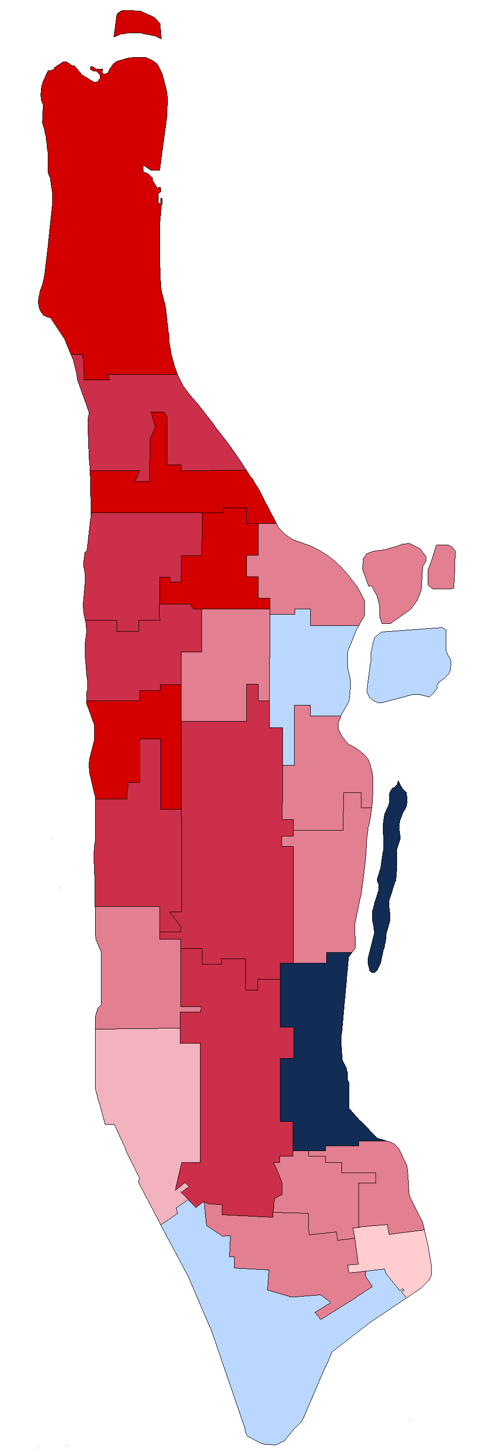 Results of the 1920 United States presidential election by Manhattan assembly district. Information courtesy of the Brooklyn Daily Eagle, November 3, 1920. As the figures provided in that paper do not match exactly with more authoritative recapitulations of Manhattan's overall results, it is useful only for the percentages of votes received by each candidate as depicted here rather than the exact numbers thereto.